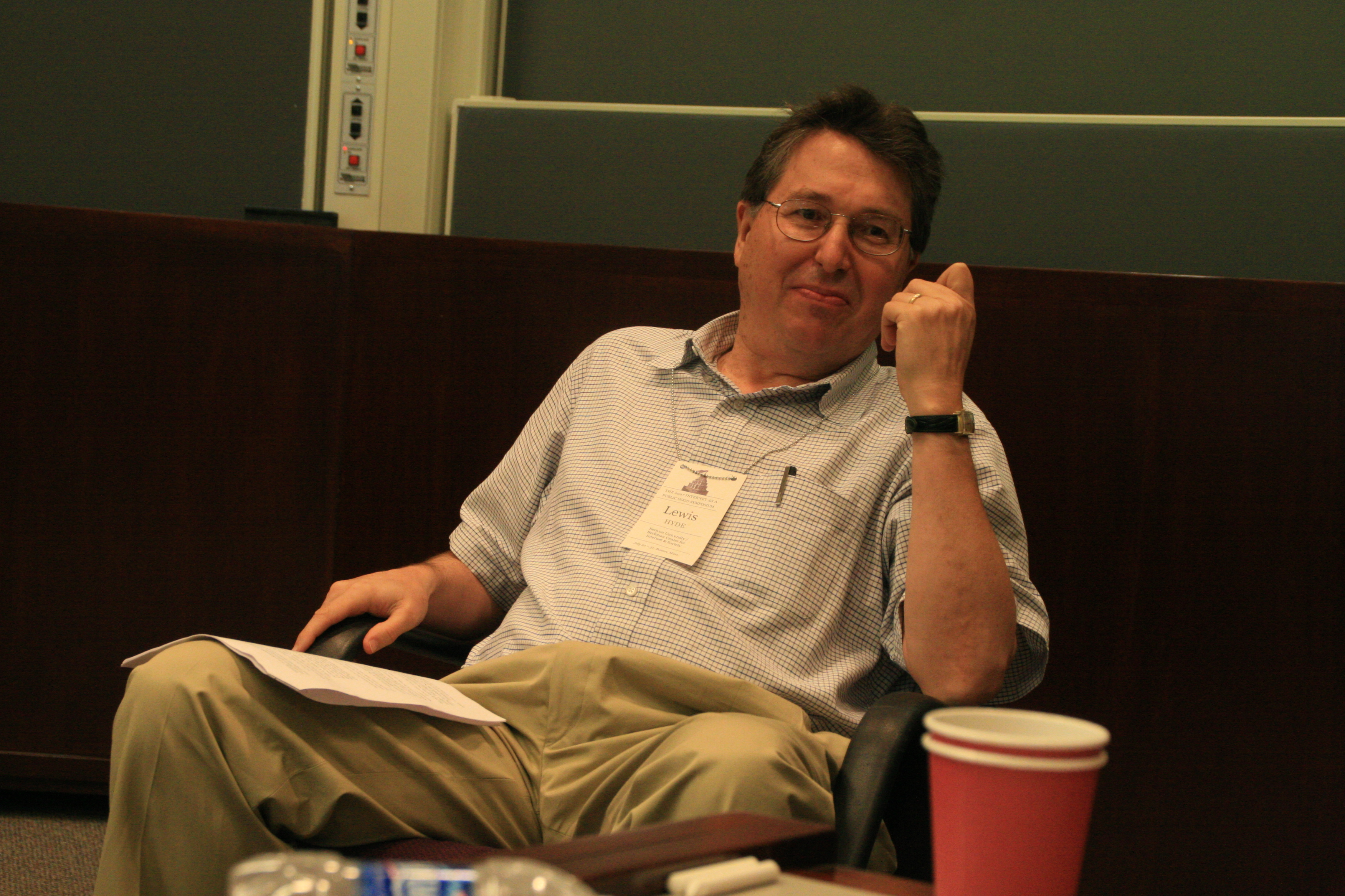 Lewis Hyde at the Internet as a Public Good conference in 2007.